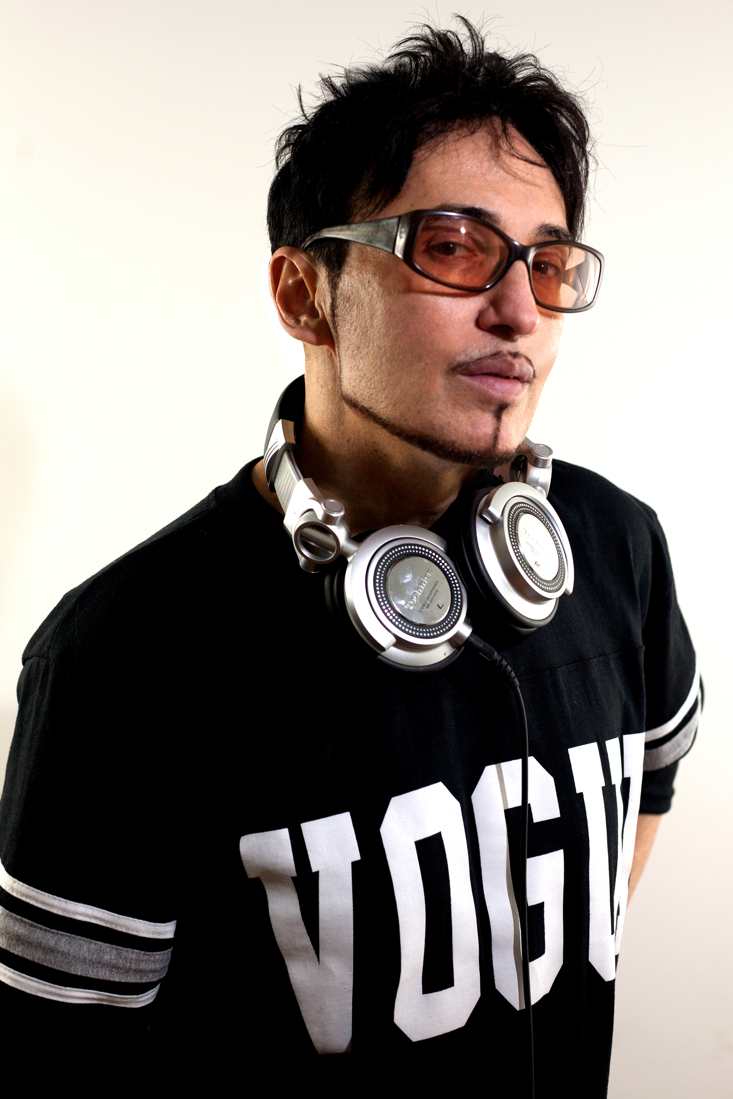 Johnny Dynell photographed by Alex Colby in 2012